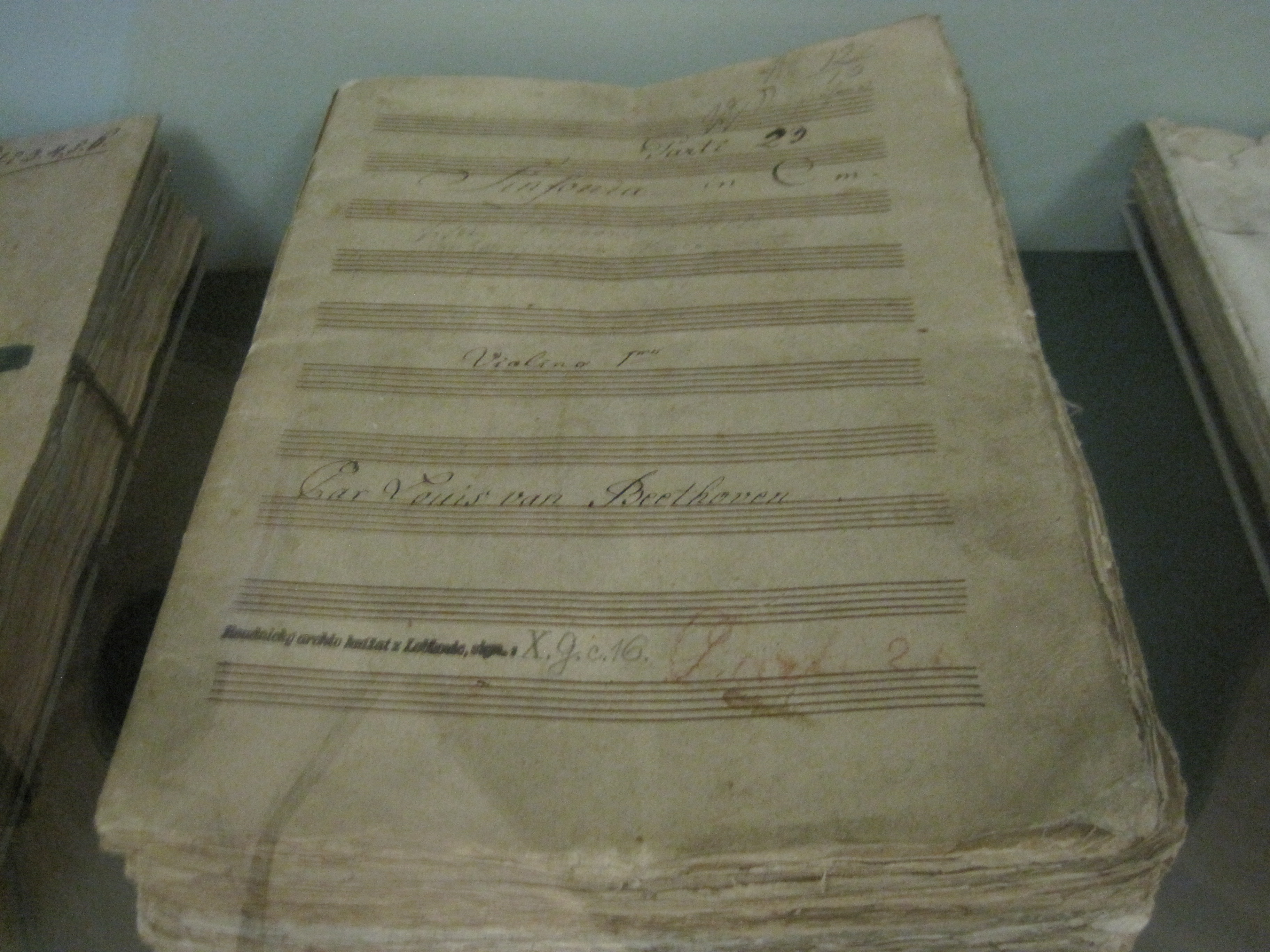 The pile of hand-copied performing parts used in the premiere of Beethoven's Fifth Symphony. They include corrections hand-entered by the composer. The parts are currently kept on view in the museum of the Lobkowitz family in their former palace in Prague.